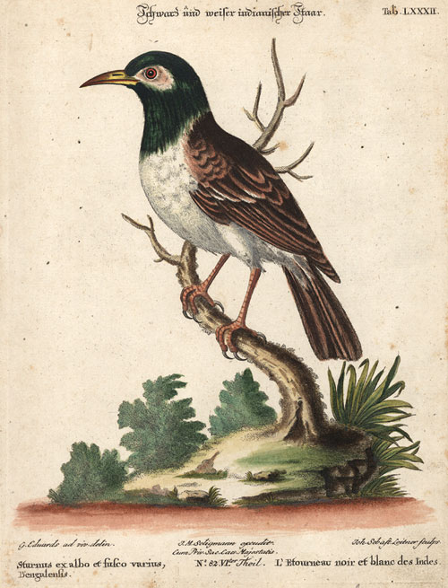 probably Sturnus contra Title: Schwarz und weiser indianischer Staar / Sturnus ex albo et fusco varius, Bengalensis / L'Etourneau noir et blanc des Indes Imprint: „Drawn from life by G. Eduards, engraved by Johann Sebastian Leitner, printed by J. M. Seligmann“.